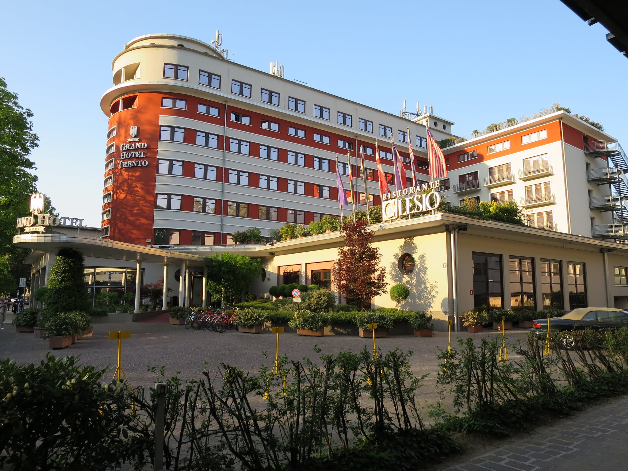 Grand Hotel Trento, Italy